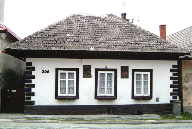 The house in Mošovce, where Miloslav Schmidt, the founder of volunteer fire brigades in Slovakia, was born.